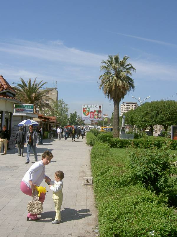 Street in Elbasan, Albania.